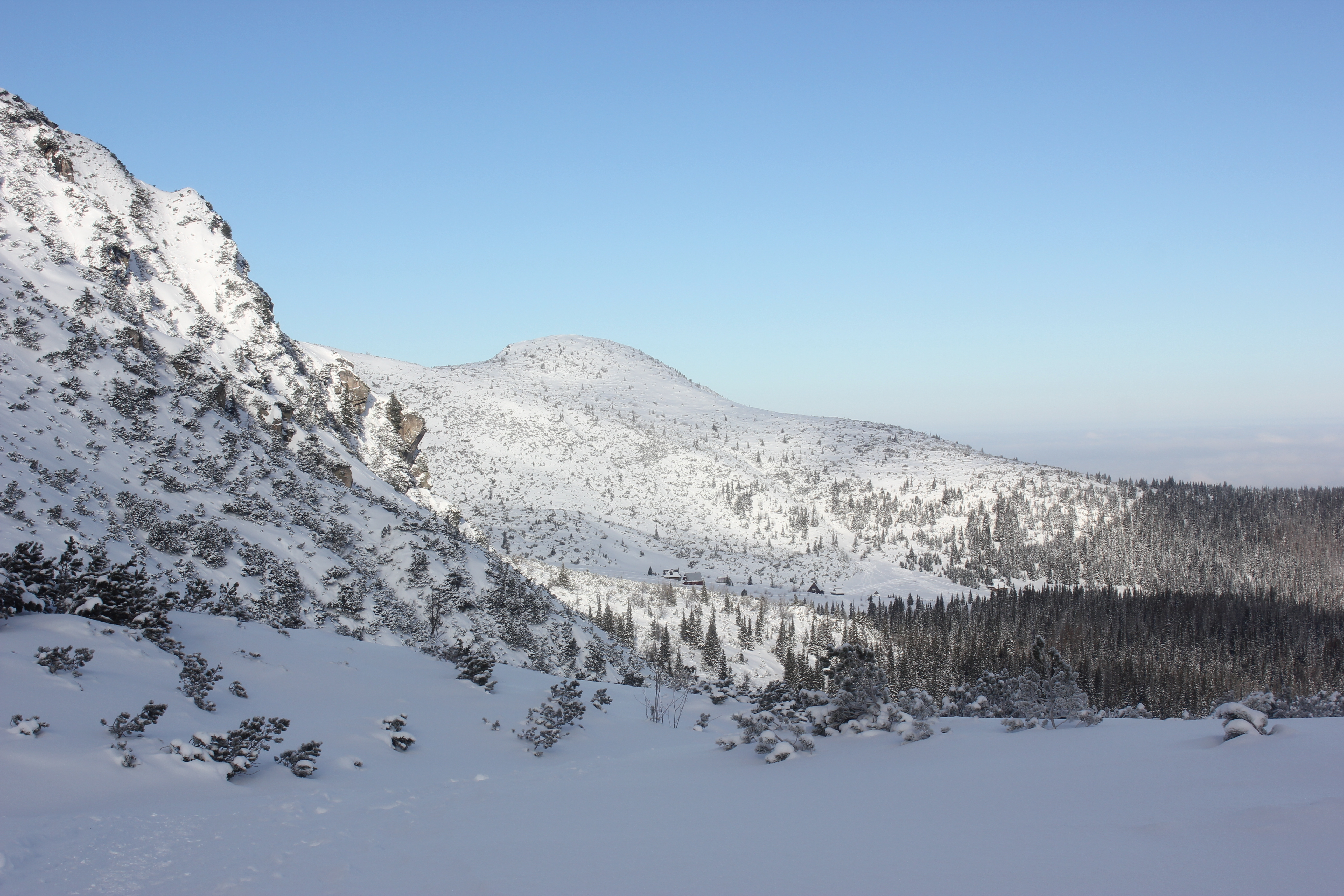 View to Hala Gąsienicowa